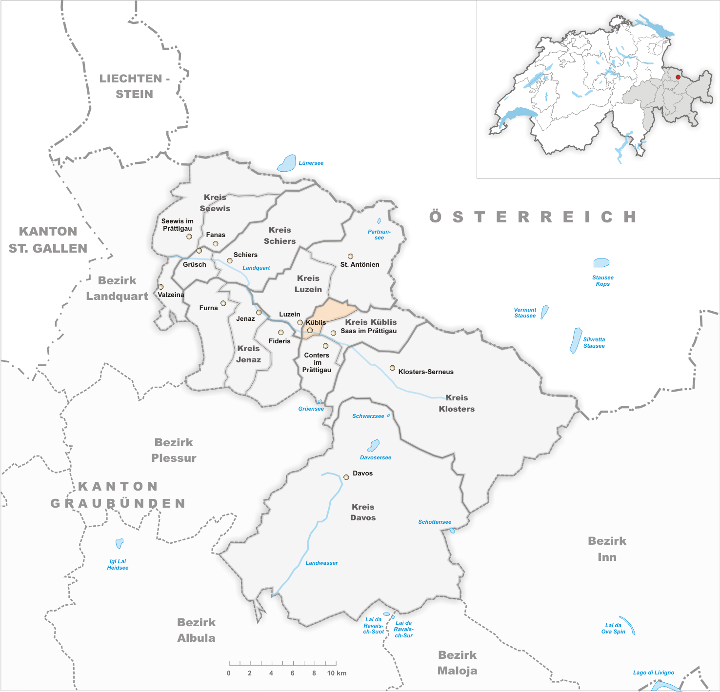 Municipality Küblis